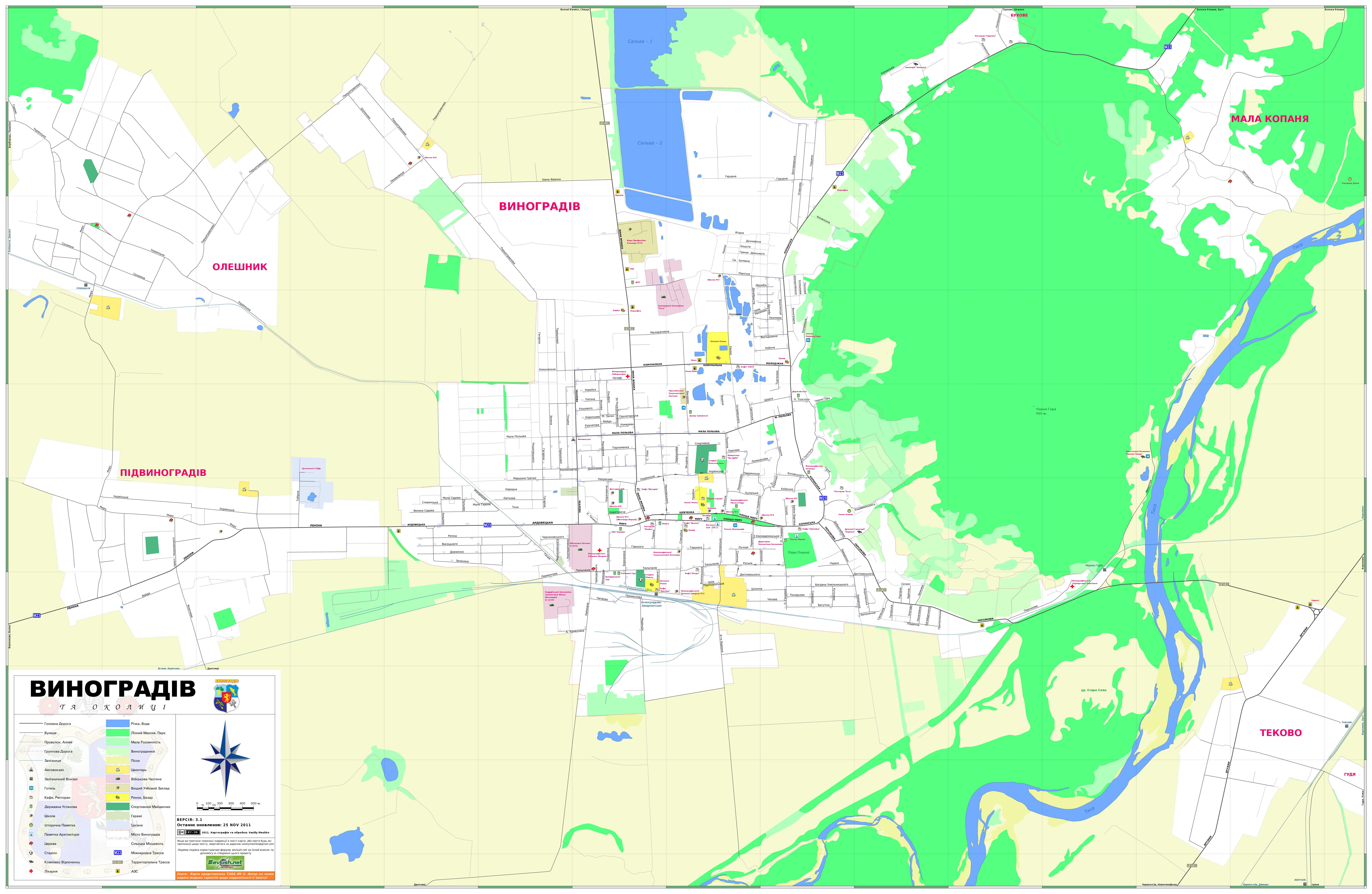 Street map of Vynohradiv area, Ukraine, created using various sources.